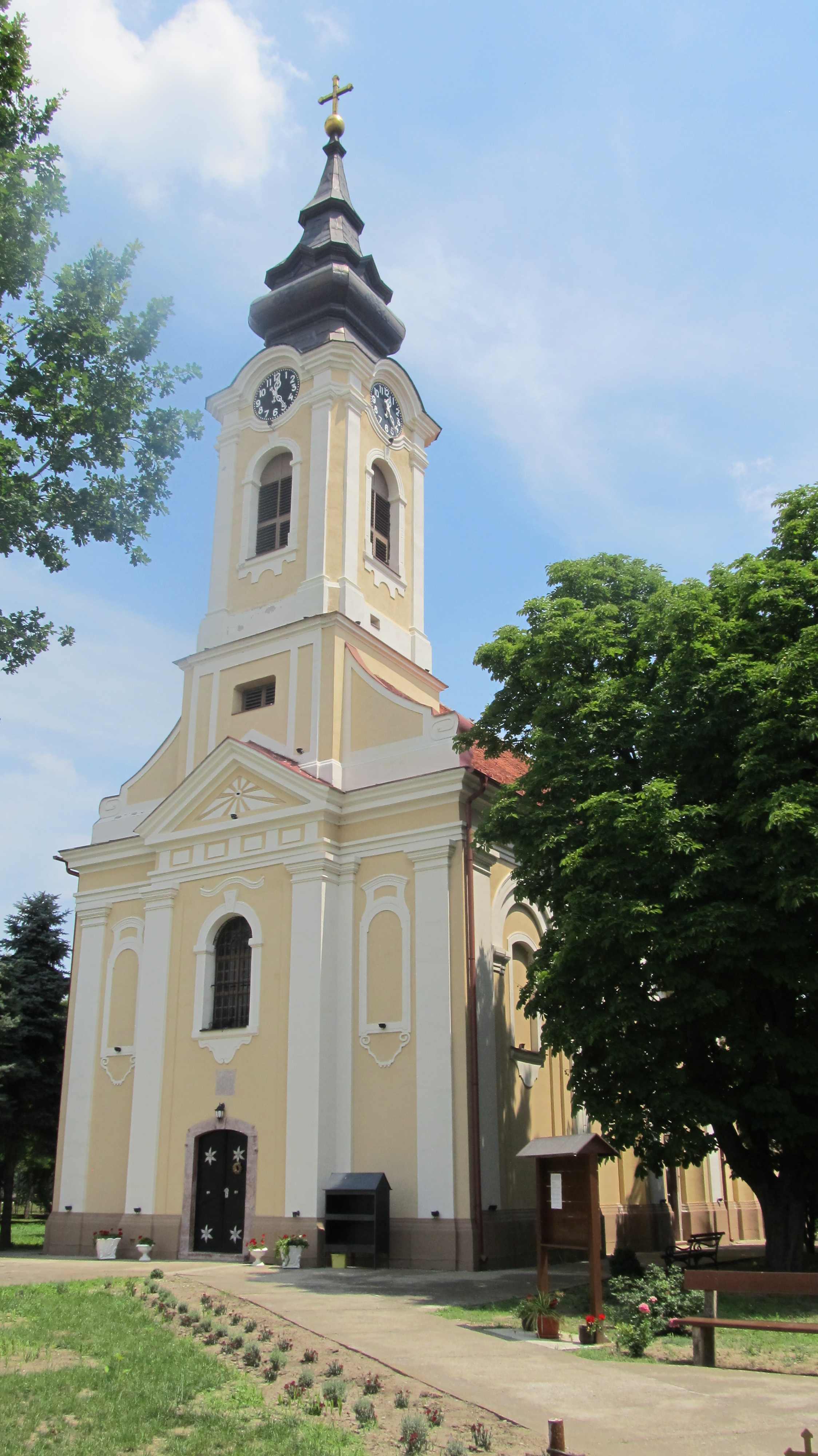 Serbian Orthodox church of Saint Nicholas in Melenci - southwest